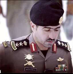 Prince Bader at The Holy Mosque in Makkah 2015